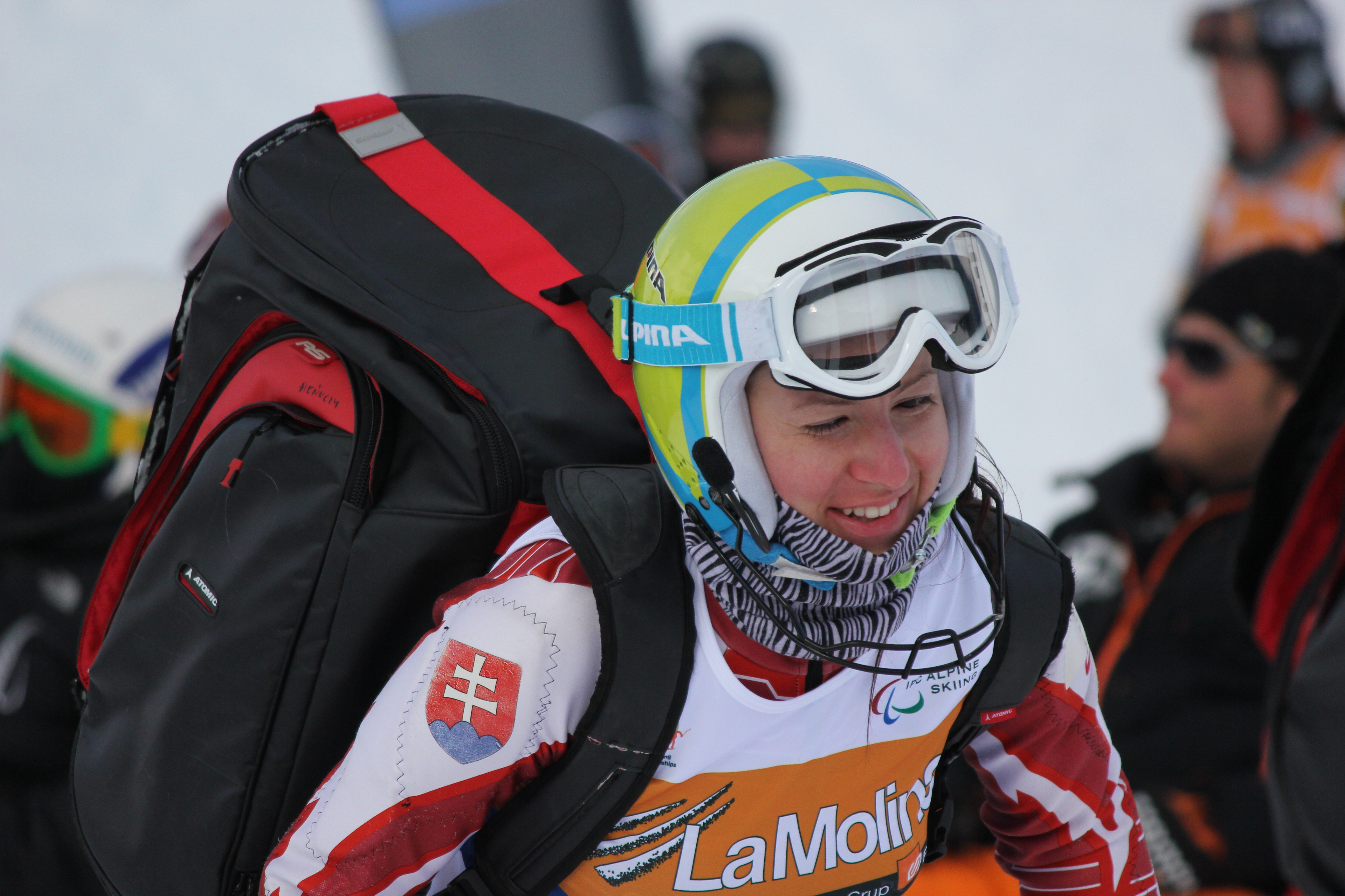 Henrieta Farkasova of Slovakia. She became World Champion after this race. 2013 IPC Alpine World Championships at La Molina in Spain. Day 3 of competition. Slalom final.